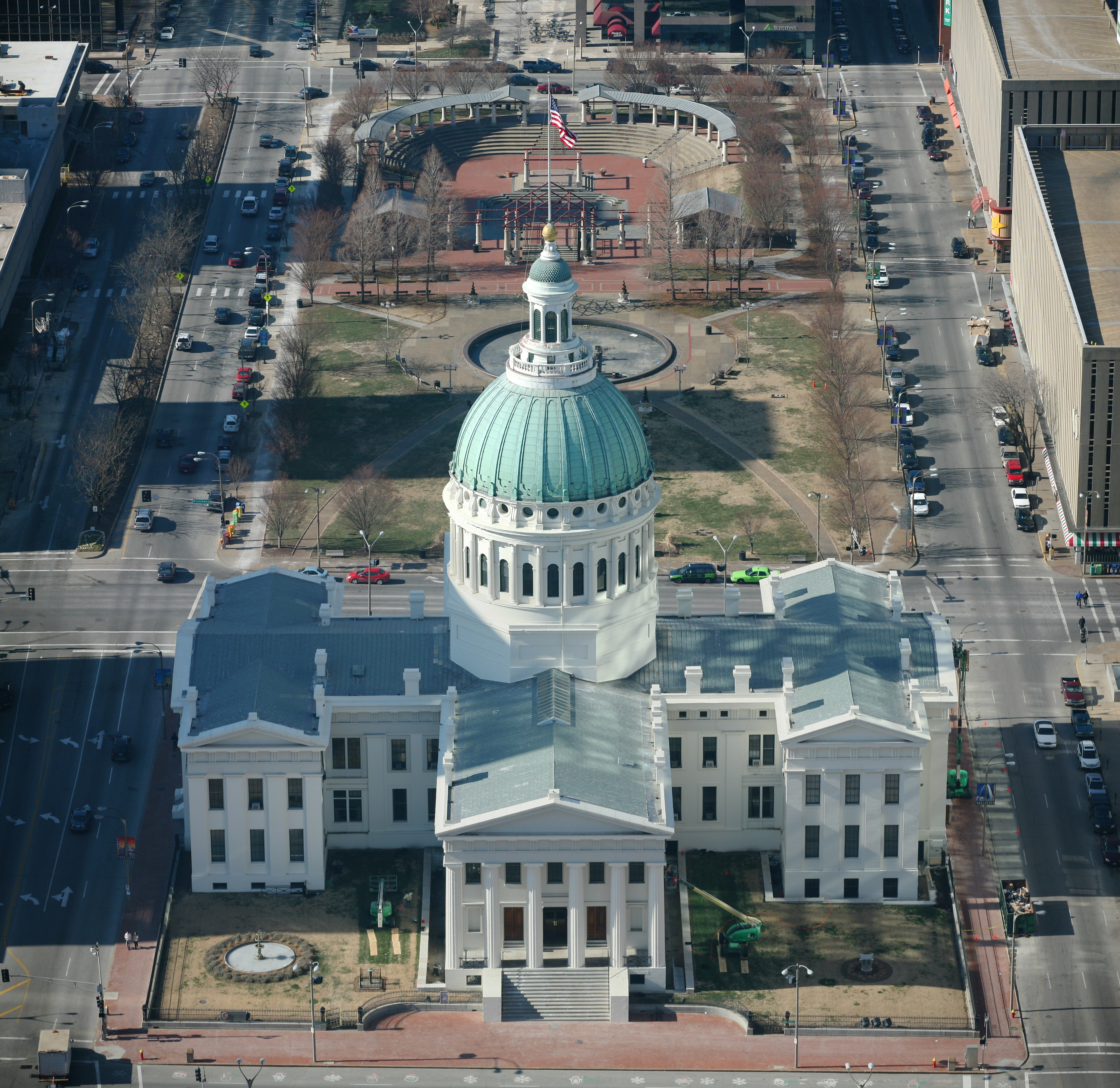 Old Courthouse in St. Louis, Missouri, USA, as seen from the top of the Gateway arch.